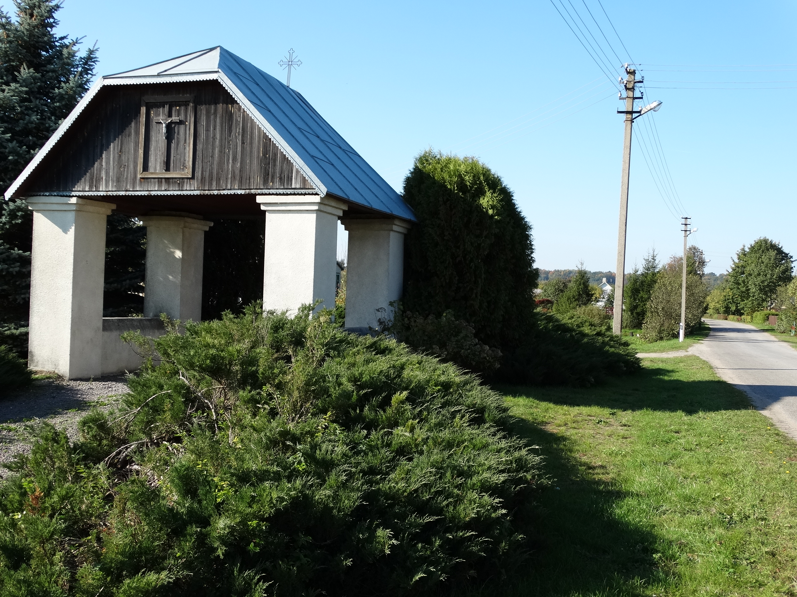 Gates in Darsūniškis, Lithuania